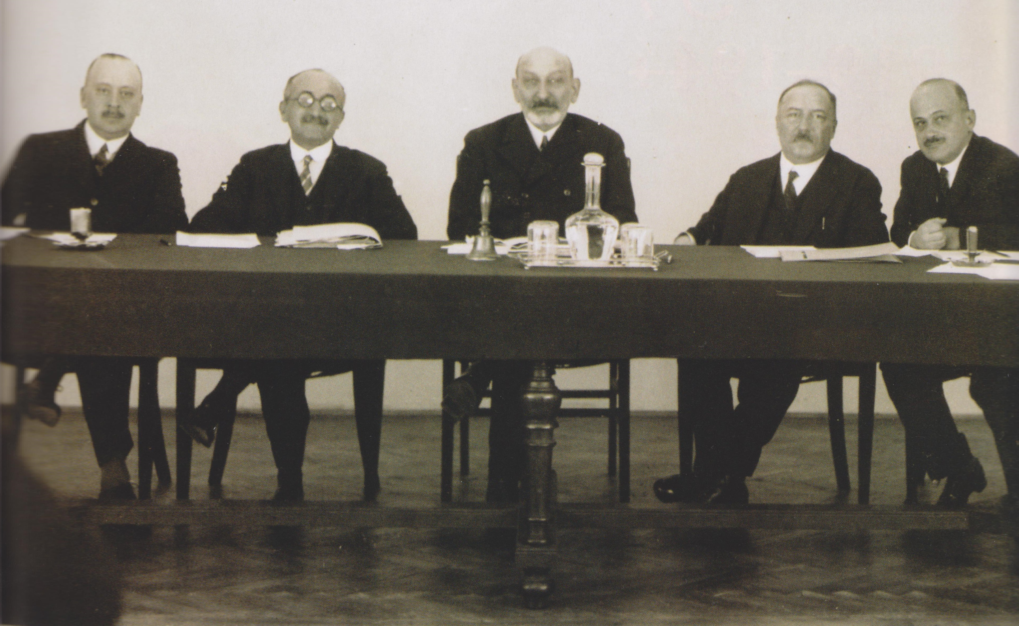 Presidium of the National Association of Industrialists; Miksa Fenyő, Henrik Fellner, Lóránt Hegedüs, Ferenc Chorin